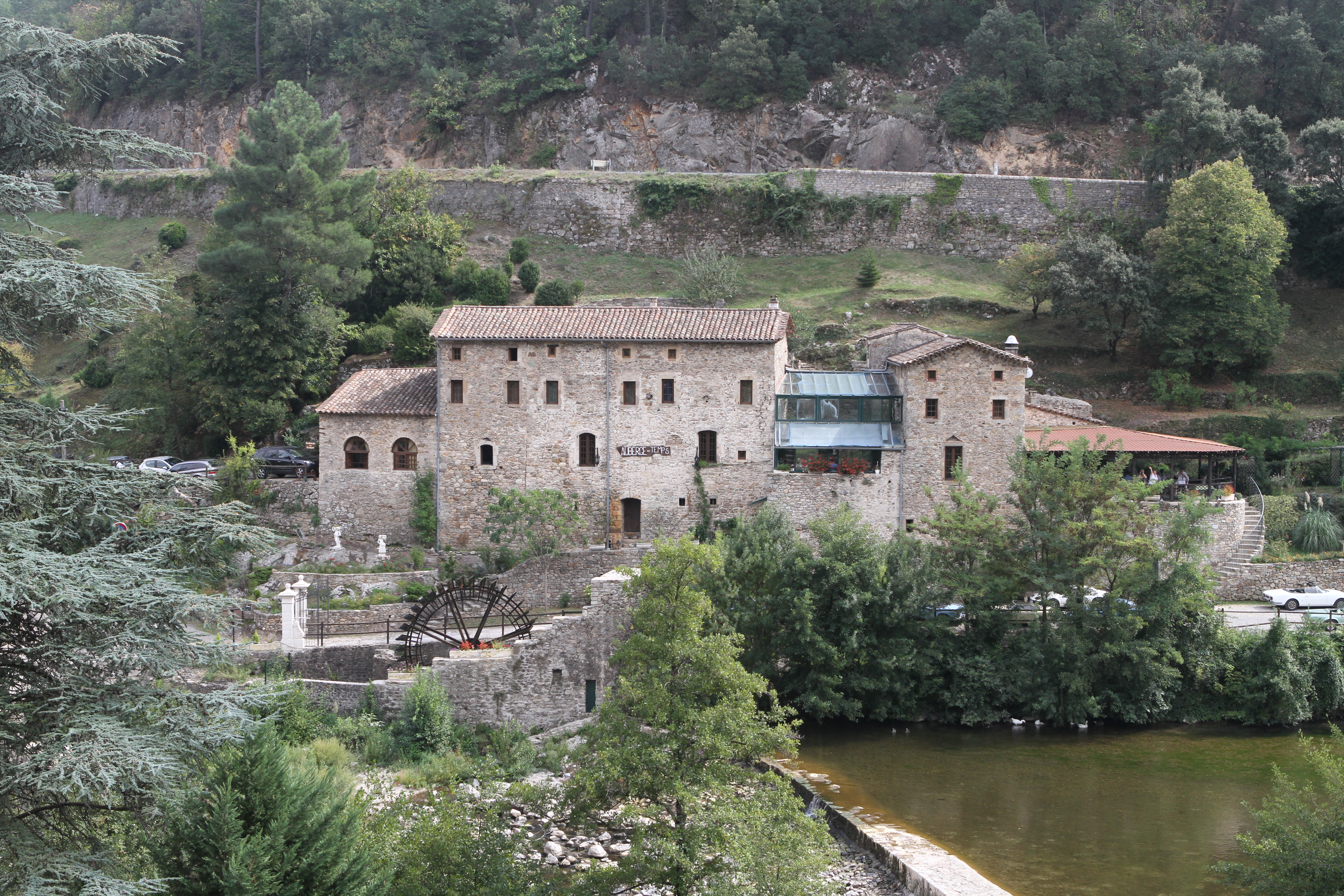 Auberge du Temps view from the steam train of Cevennes (Gard, France).